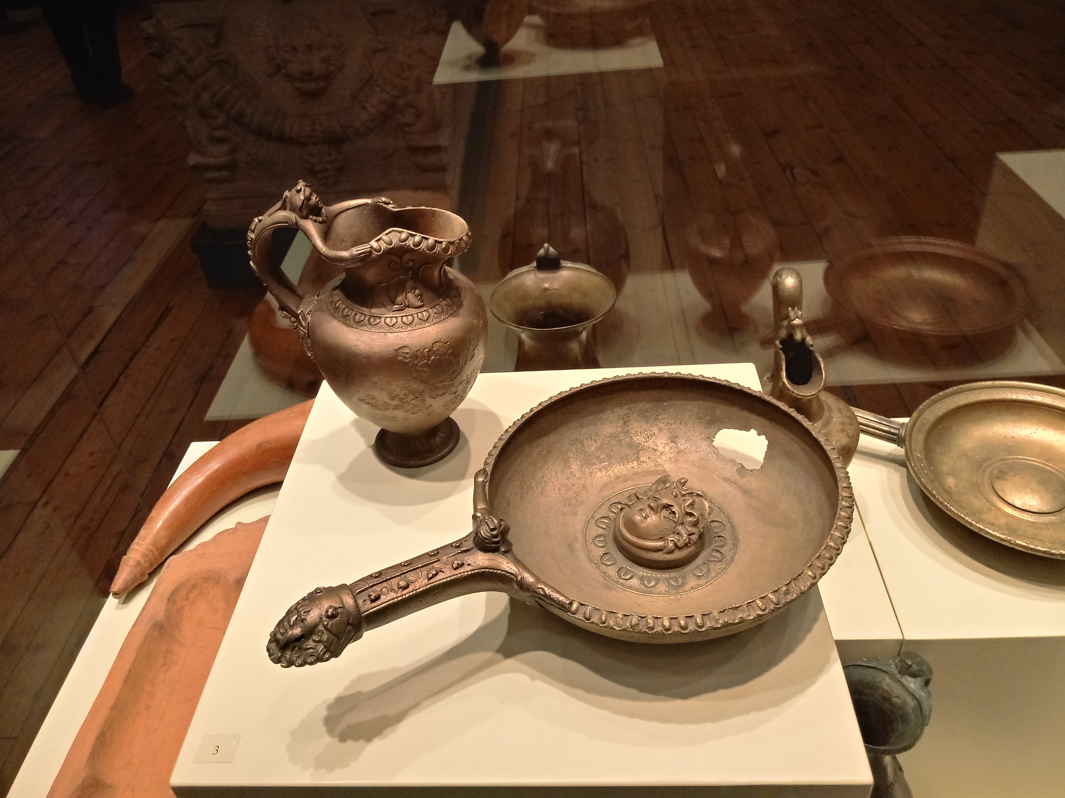 National archaeological museum Sofia - bronze oinochoe and patera - Kamenar, Razgrad Province, 2-3 century AD